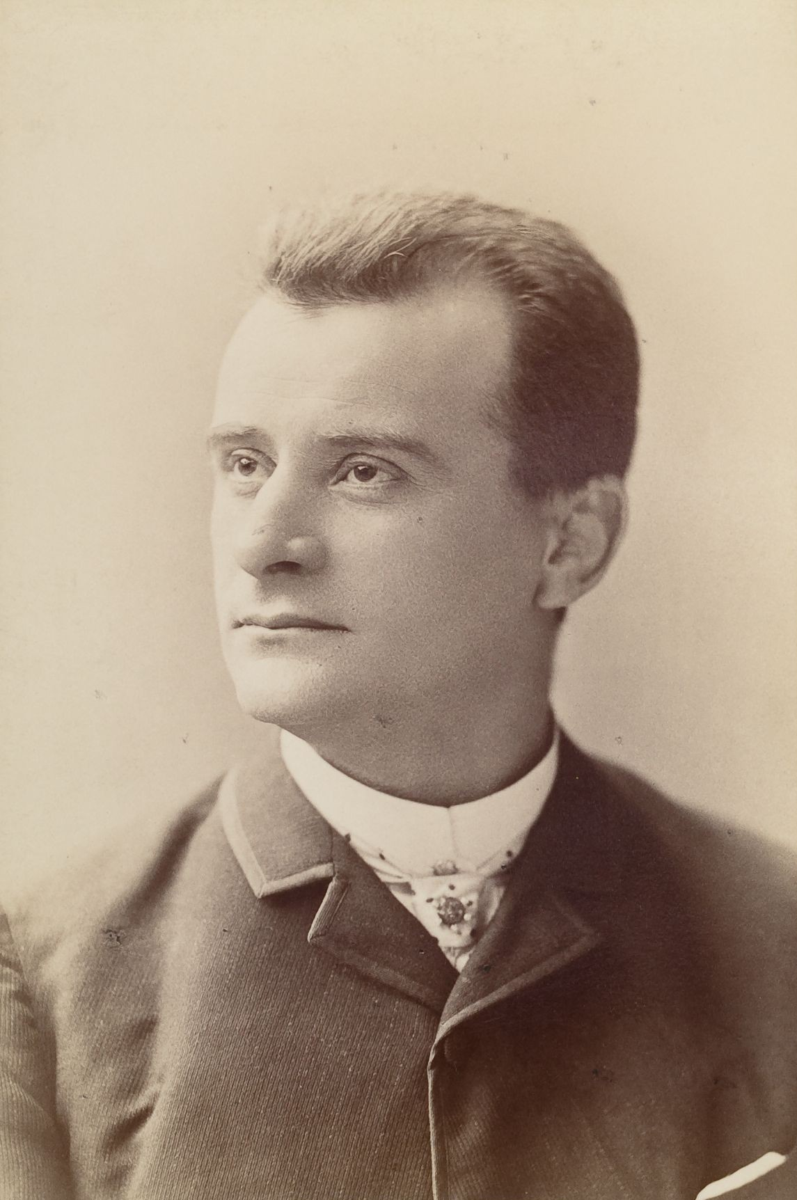 Cabinet card image of American actor, singer, playwright, lyricist and theater producer Edward "Ed" Harrigan (1844-1911). TCS 1.496, Harvard Theatre Collection, Harvard University